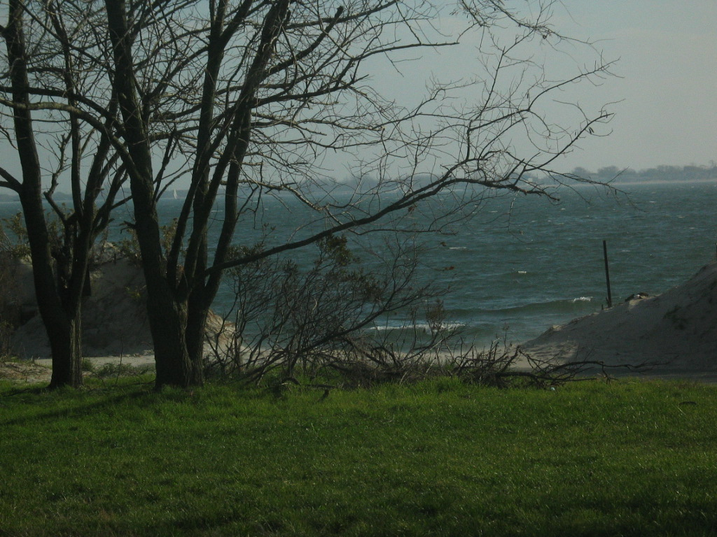 The waves of Jamaica Bay aproaching the green coastline of Brooklyn, NYC